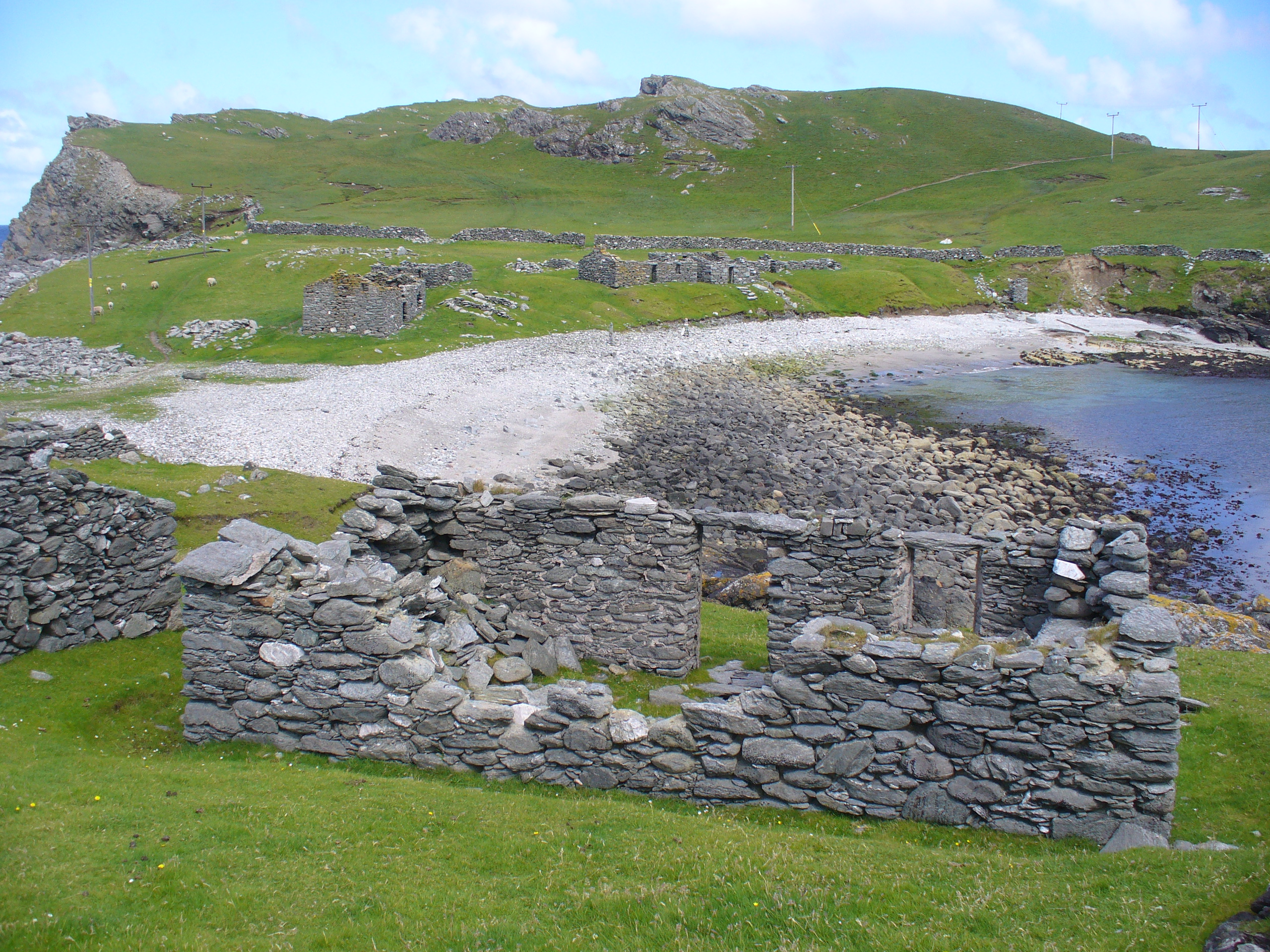 Ruins at Fethaland